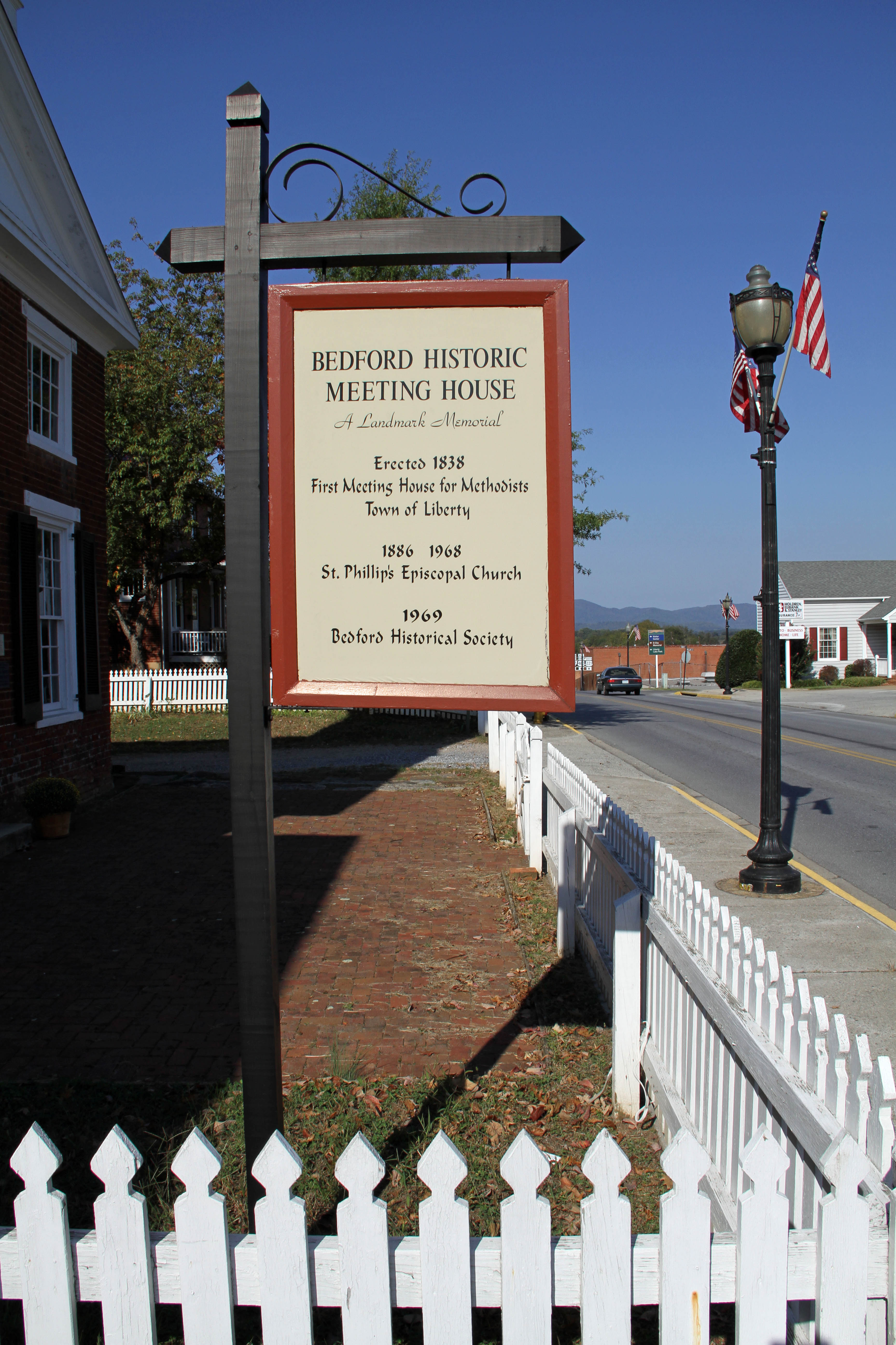 Bedford Historic Meetinghouse